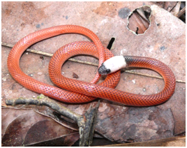 Drepanoides Annomalus